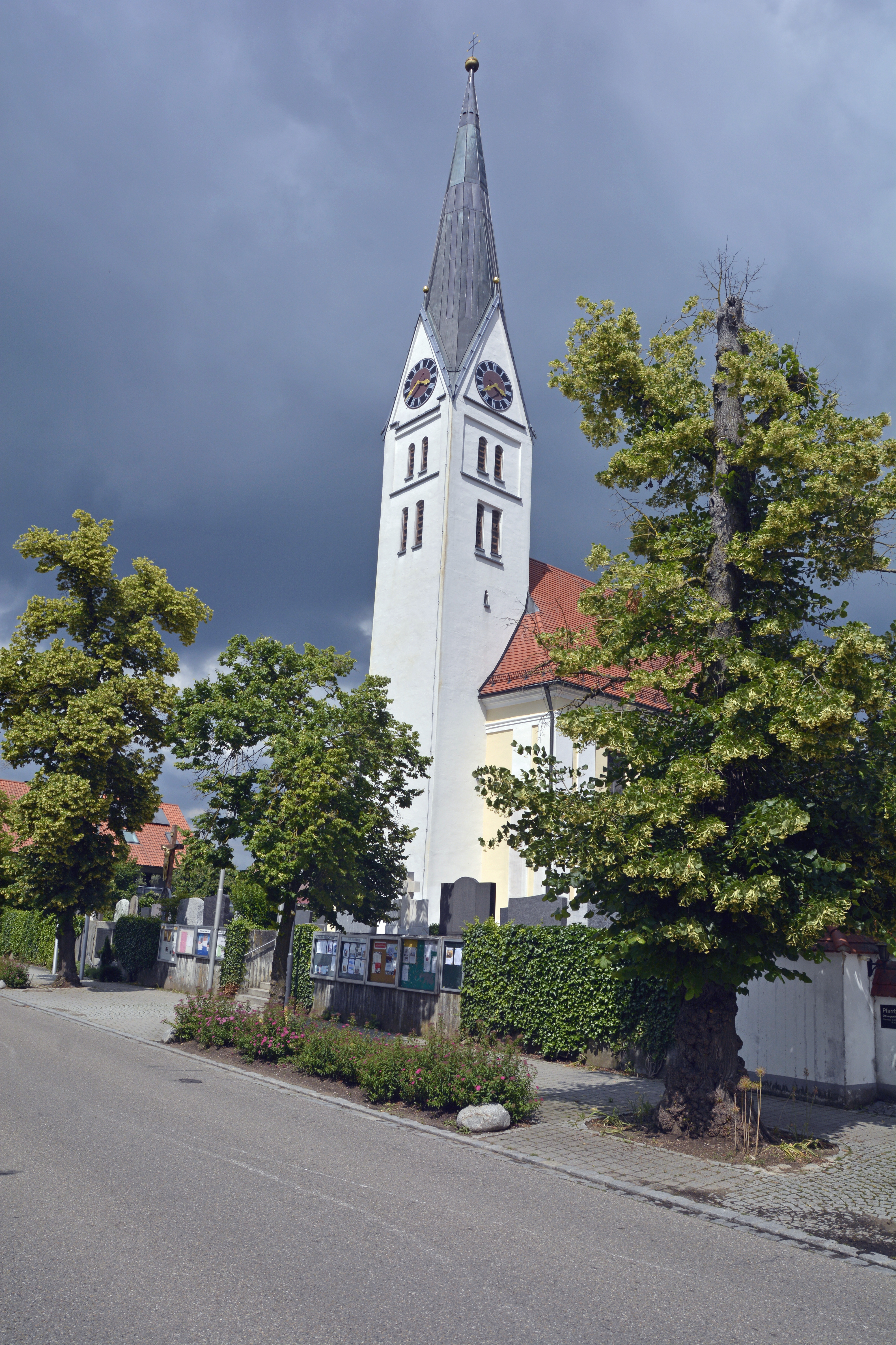 St. Maria Magdalena Church in Schiltberg